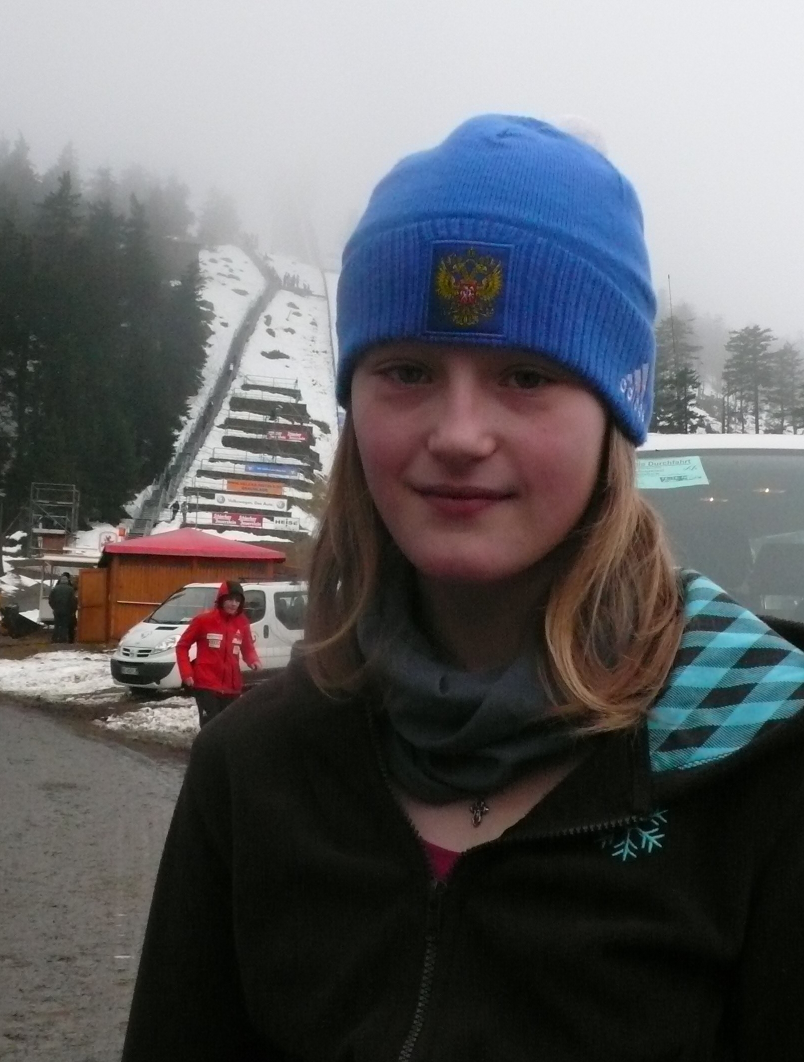 Alexandra Kustova, Braunlage